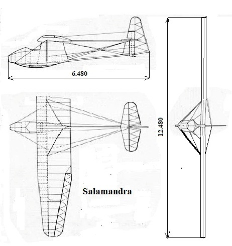 Glider Salamandra